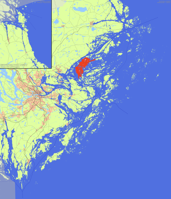 Location of the island Ljusterö